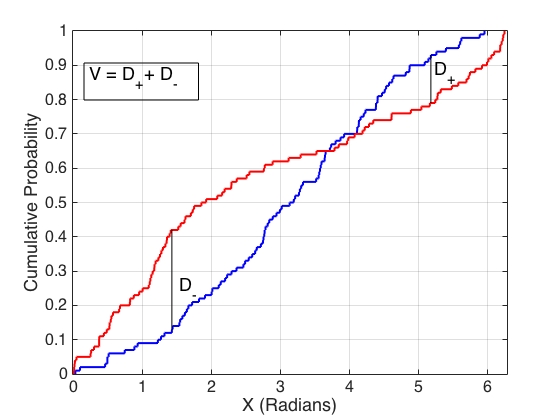 Visualization of Kuiper Test Statistic with two sample traces. Modified source code from user Bscan's work on 2 sampled KS-test. Matlab code shown below